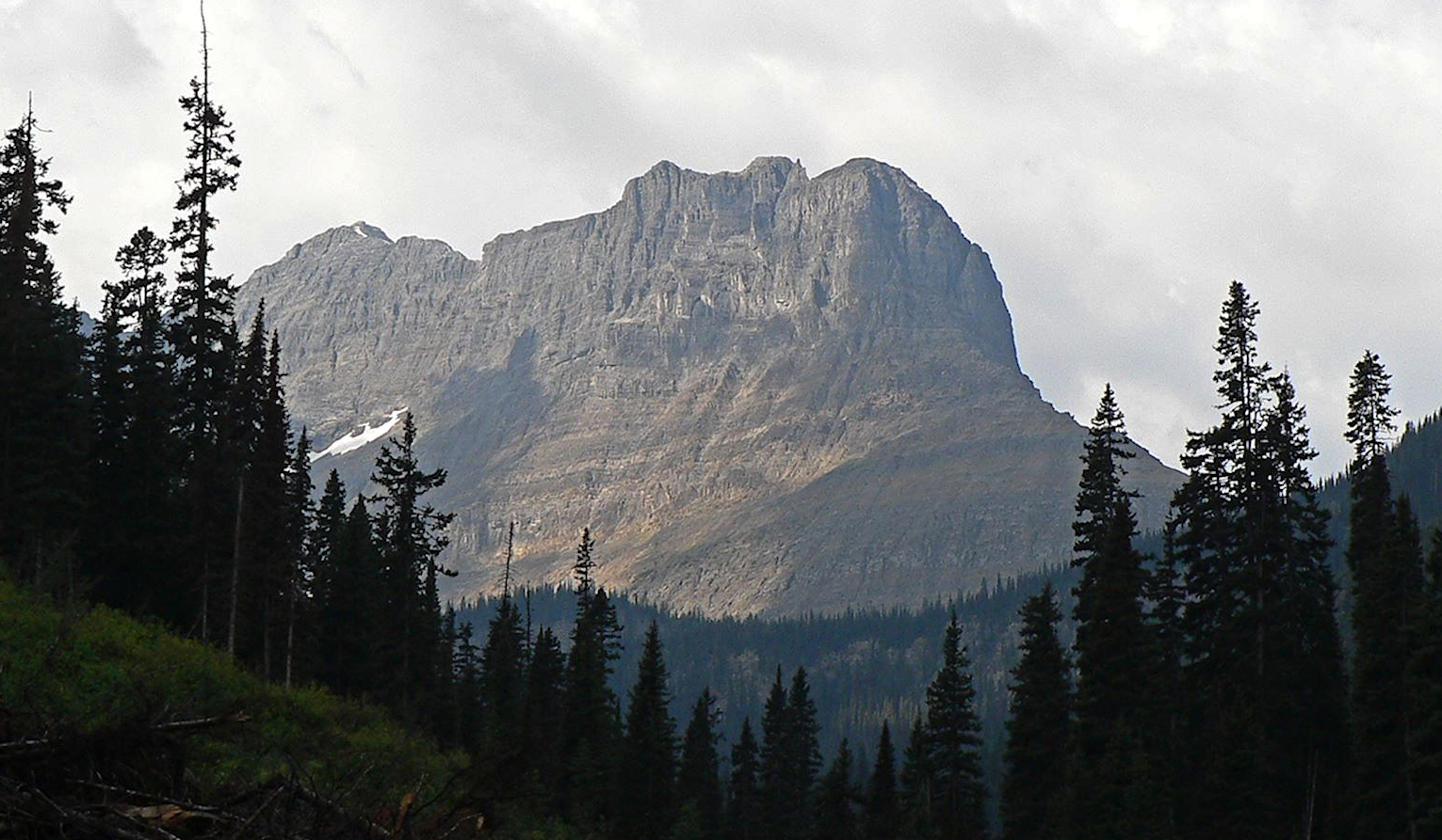 Mount Gray of the Vermilion Range in Kootenay National Park in Canada . Seen from Tumbling Creek Trail.